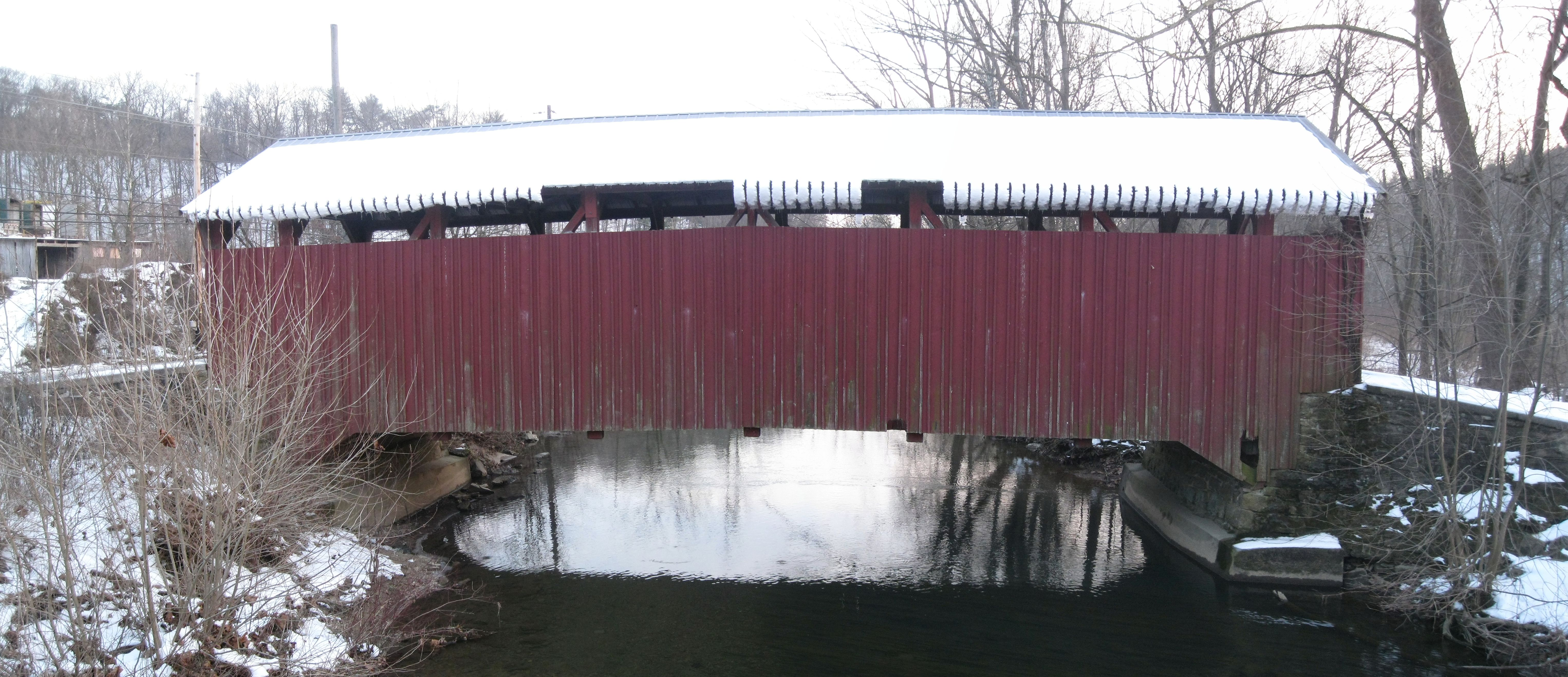 North side Aline Covered Bridge, a Burr arch covered bridge near the village of Meiserville connecting in Perry Township, Snyder County, Pennsylvania, USA. It was constructed in 1884 and crosses the North Branch of Mahantango Creek; listed on the National Register of Historic Places in 1979.